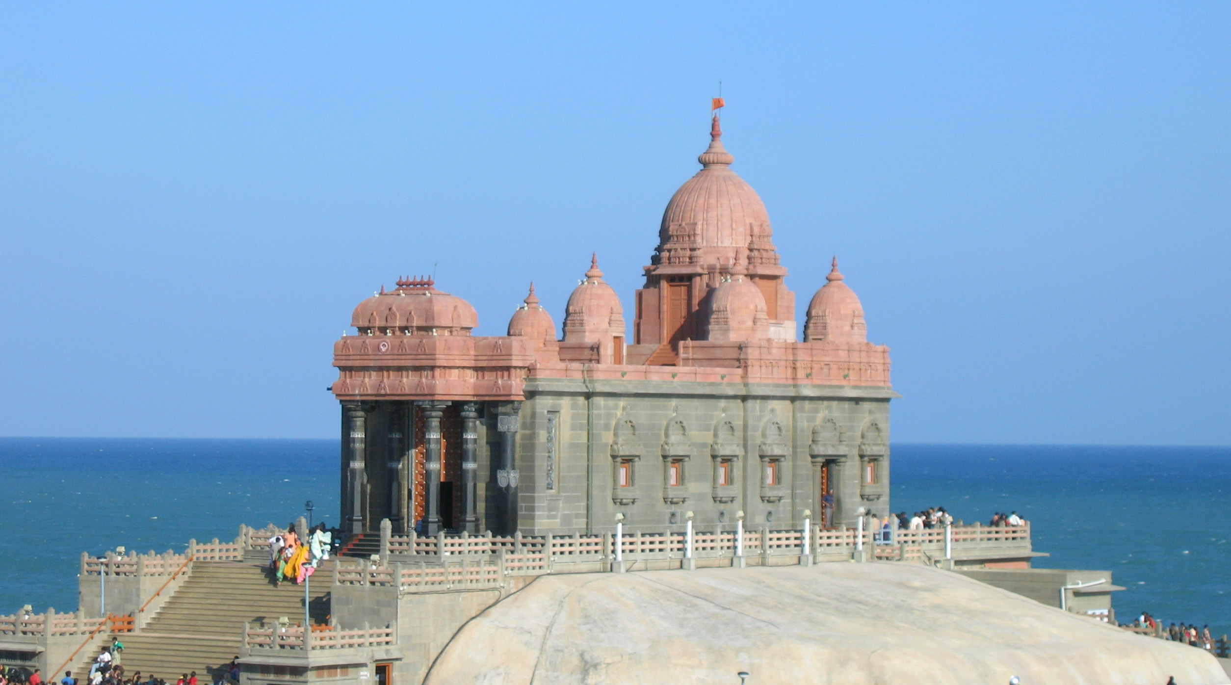 Kanyakumari views